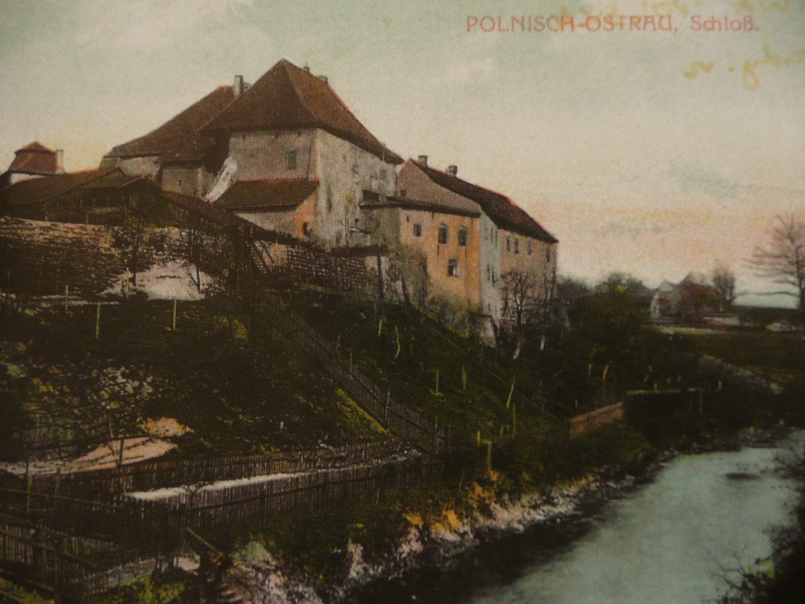 Castle in Polish Ostrava